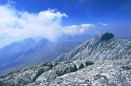 The view from Sapitwa Peak, Mulanje Massif, Malawi. From .